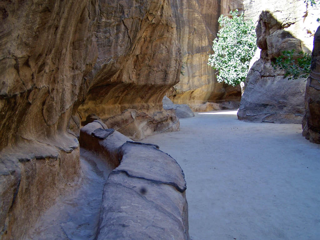 The Siq in Petra, Jordan